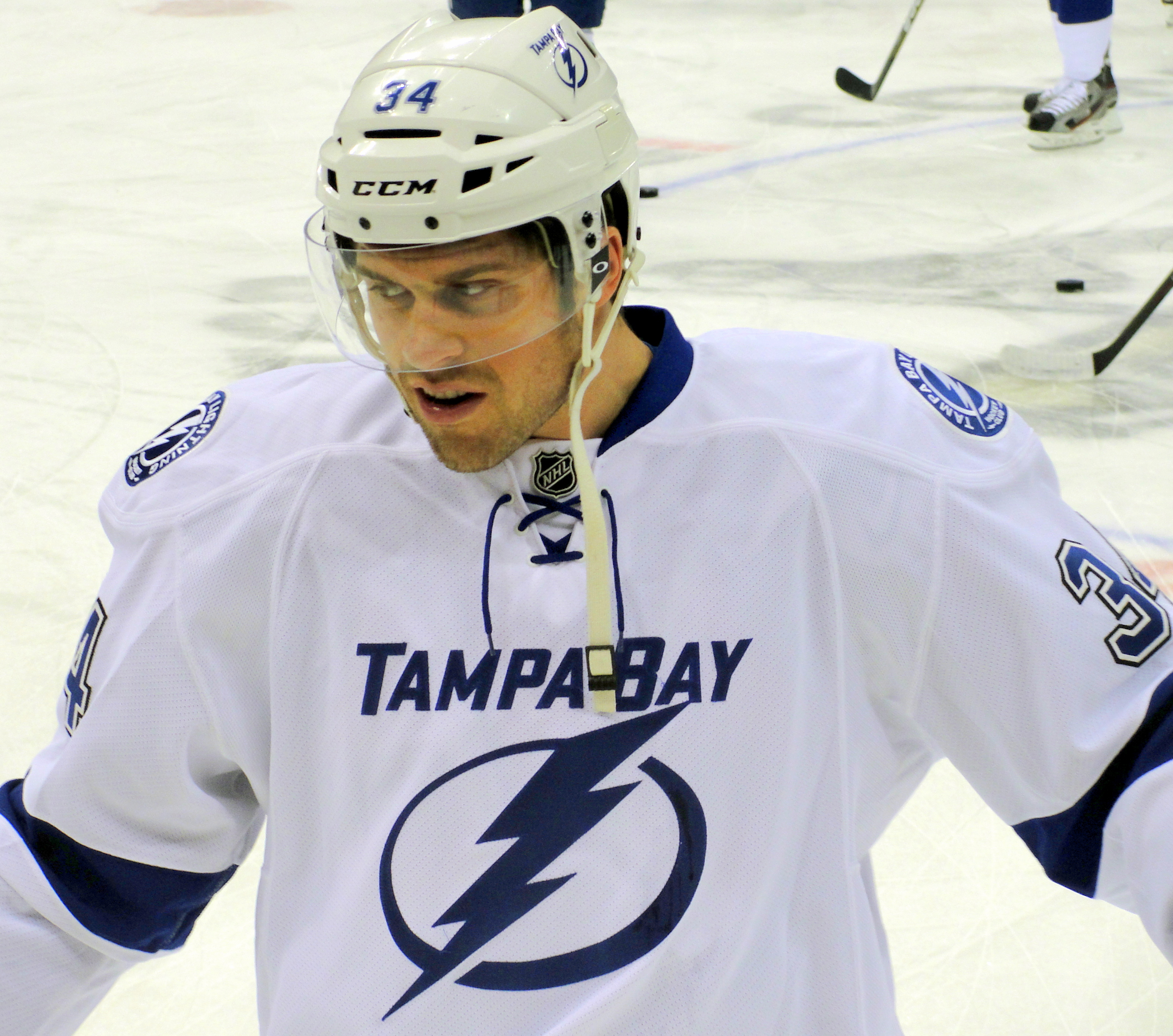 Tampa Bay Lightning forward J.T. Wyman during a February 25, 2012 game against the Pittsburgh Penguins at Consol Energy Center in Pittsburgh, PA.